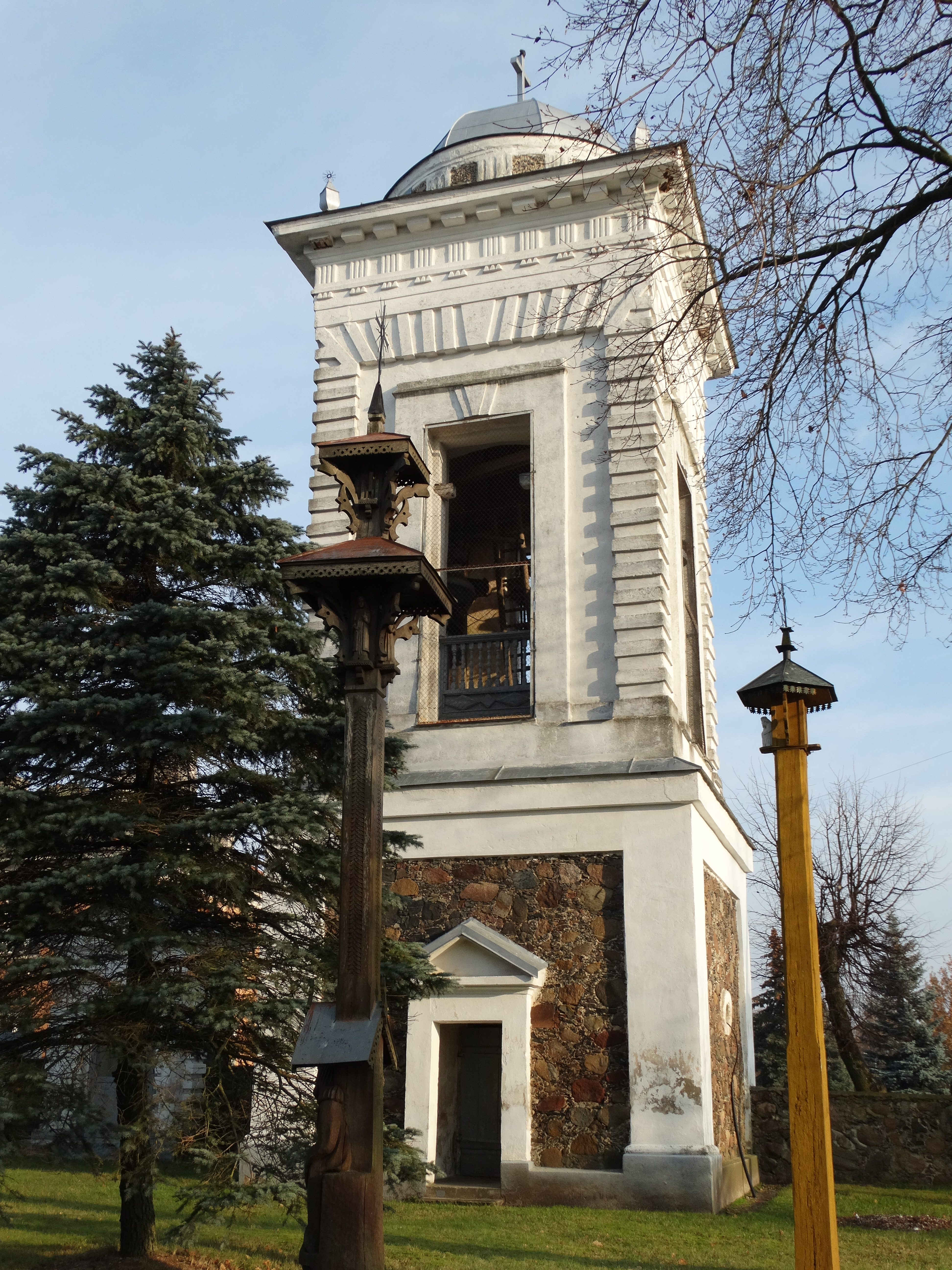 Bell tower, Vabalninkas, Lithuania